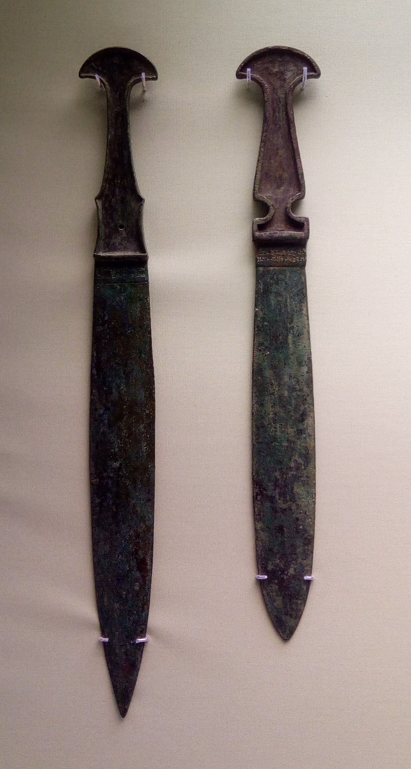 Bronze Swords from Babylonian. Inscriptions name Marduk-nadin-ahhe (1099-1082 BC), king of Babylon, and his officer, Shamash-killani. Excavated in Luristan (Iran) : either they were buried with soldiers, either they were consercrated in a temple. ME 123060, 123061.